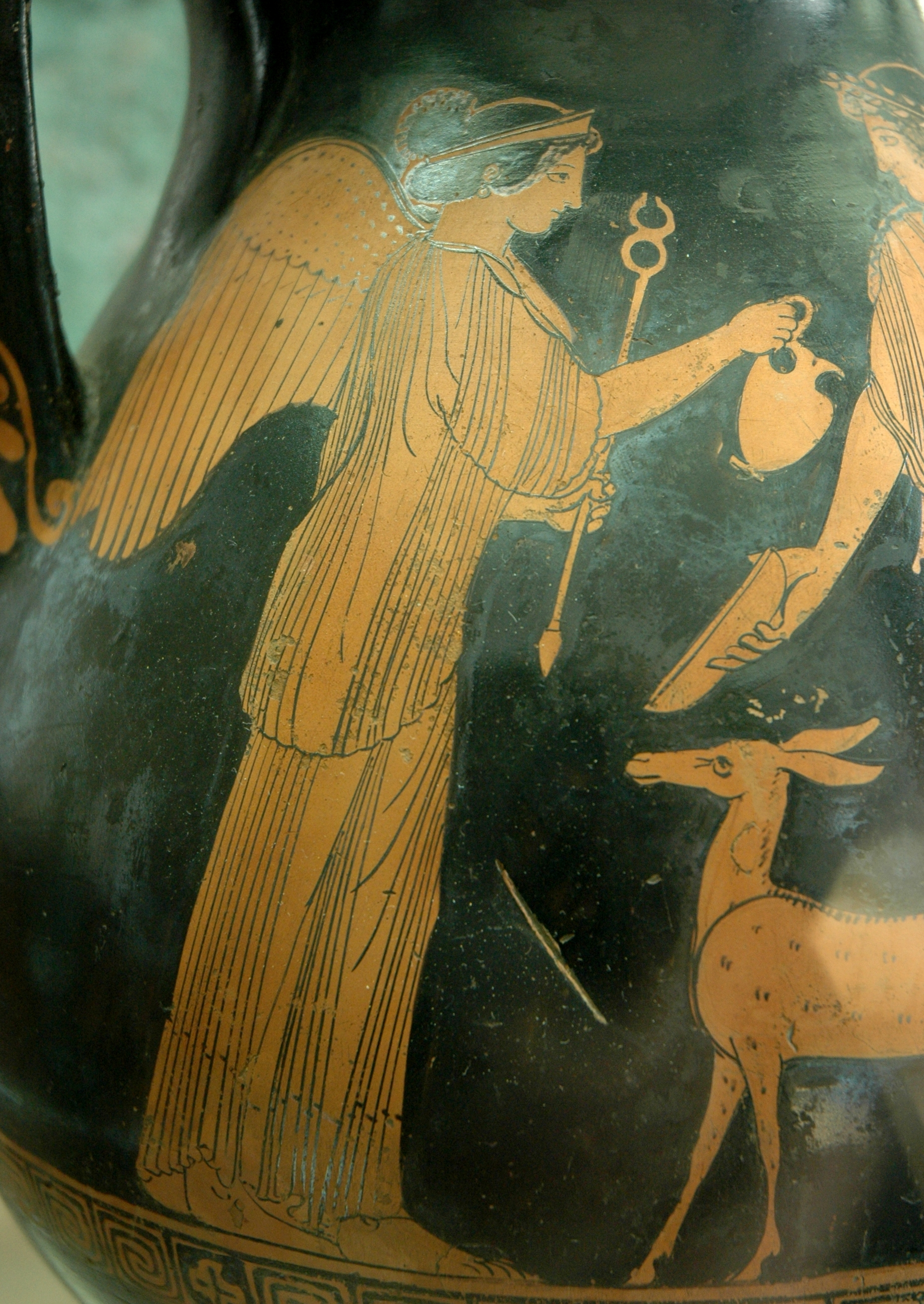 Winged female figure holding a caduceus : Iris (messenger of the gods) or Nike (Victory). Detail from an Attic red-figure pelike, middle of 5th century BC. From Agrigento, Sicilia.